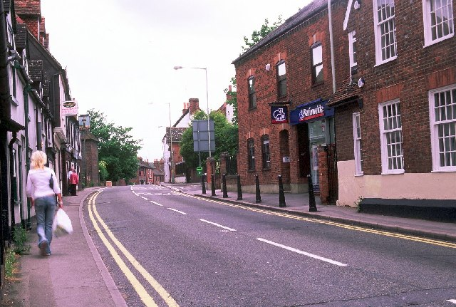 Twyford. Twyford was once a busy crossroads but the Great Bath Road (A4) now bypasses it to the north and the M4 carries long distance traffic well to the south. This scene is the old Bath Road right on the southern edge of the square.